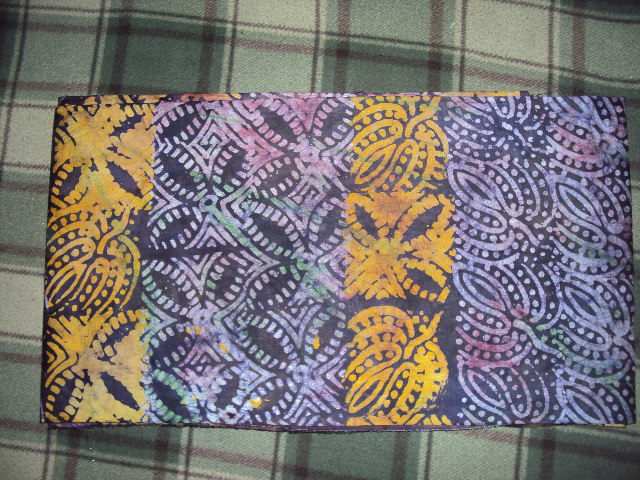 PATTERNS IN BATIK Yorùbá: ORISIRISI ADIRE NI ILE YORUBA